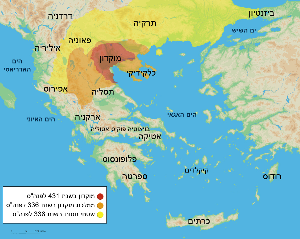 Macedon during the Peloponnesian War, around 431 BC, and during the early Hellenistic period, around 336 BC, at the death of Phillip II of Macedon